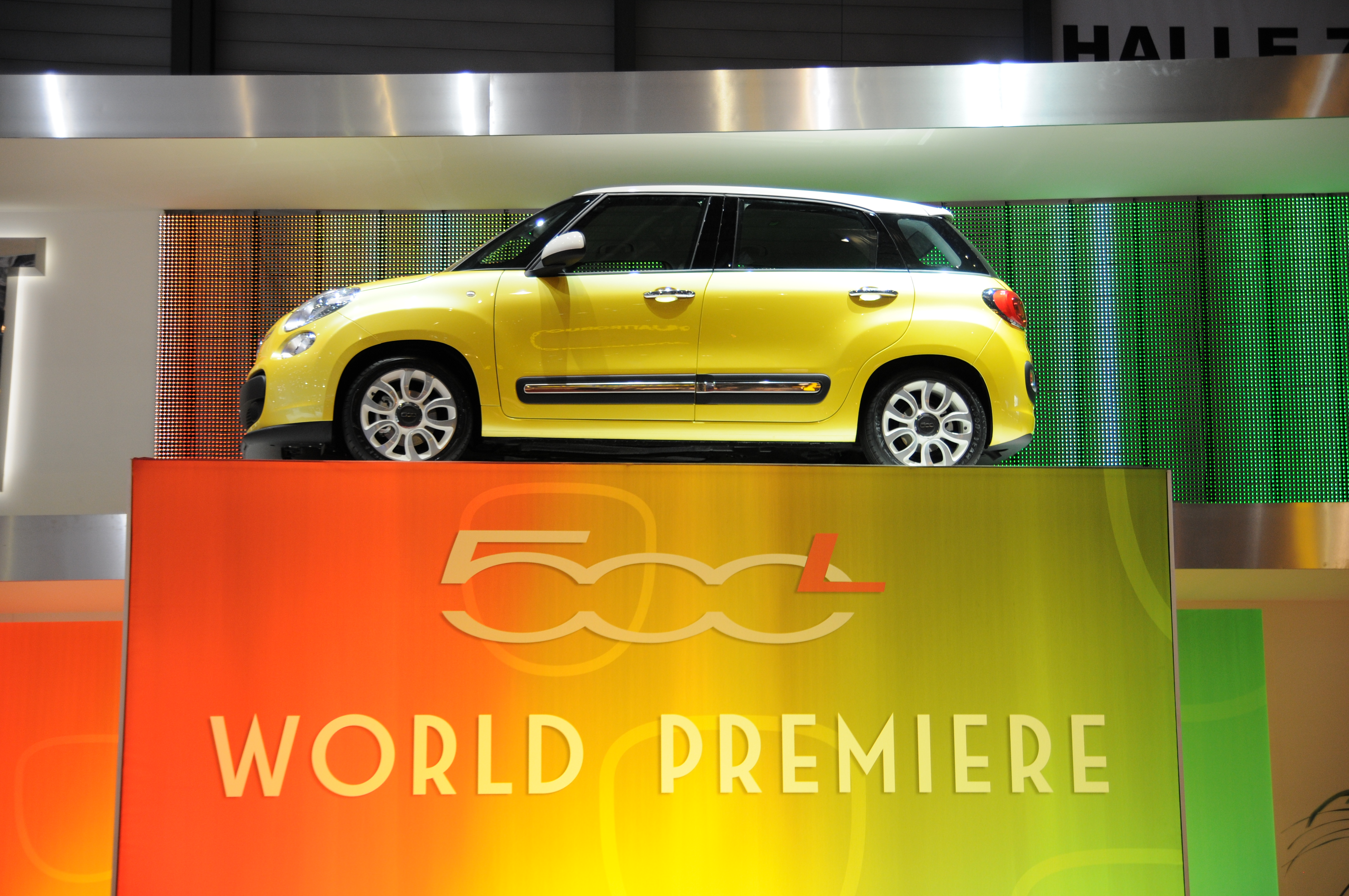 Geneva Motor Show 2012 (photos taken on the second press day)